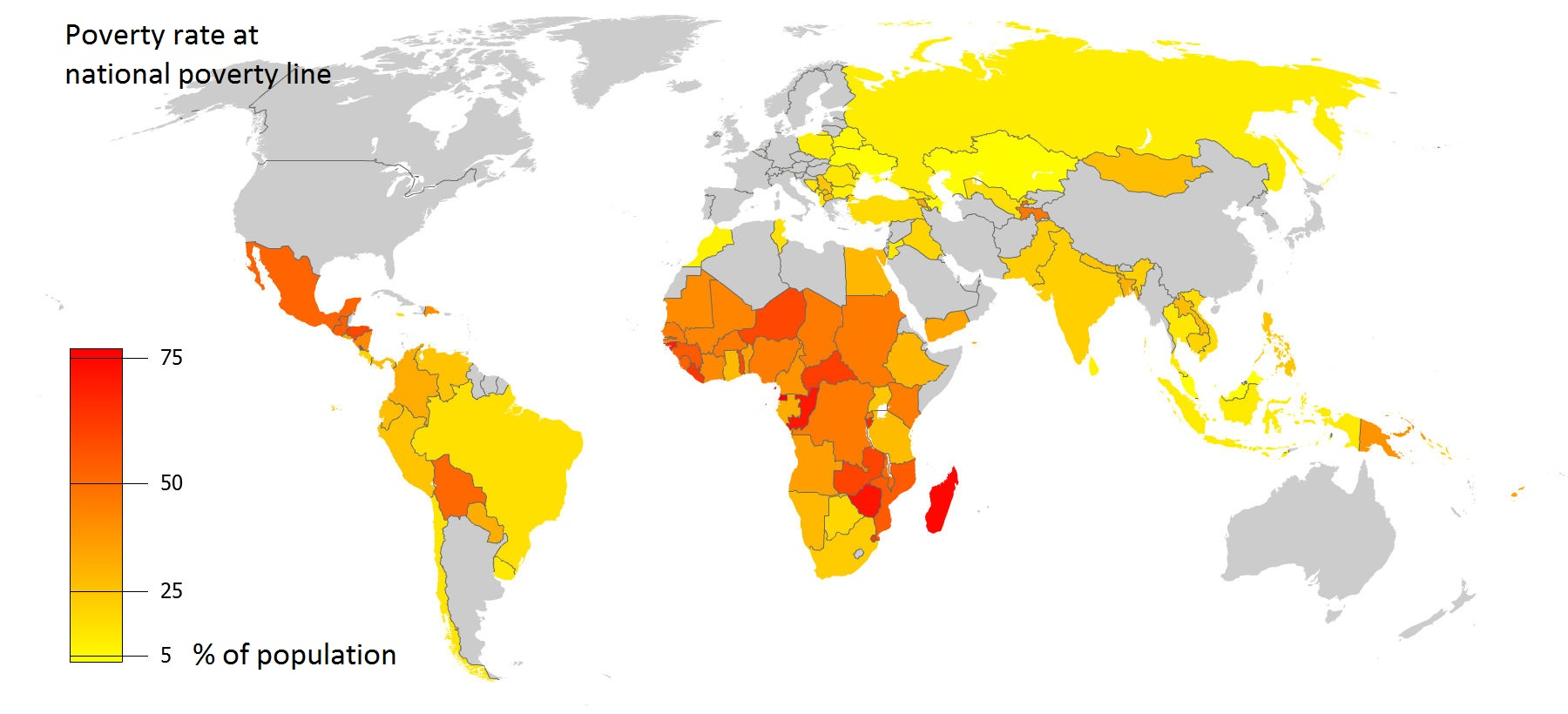 Poverty headcount ratio at national poverty line (% of population) 2008 - 2012 Gray color: data is unavailable Source: The World Bank (2013), World DataBank, Note: The national poverty line for each country is different, and is set by the government based on its own socio-economic consideration. Any comparisons between nations based on the above world map, should therefore be done with caution.